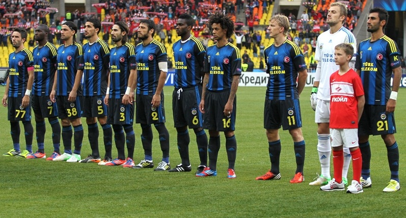 List of players: Gökhan Gönül (Jersey Number #77), Moussa Sow (#7), Mehmet Topuz (#38), Mehmet Topal (#5), Hasan Ali Kaldırım (#3), Egemen Korkmaz (#2), Joseph Yobo (#6), Cristan Baroni (#16), Dirk Kuijt (#11), Mert Günok (#23 - Goalkeeper) and Selçuk Şahin (#21 - Teamcaptain)